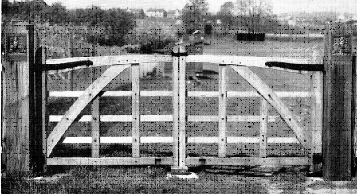 Entrance plaques in bronze to King George V Fields